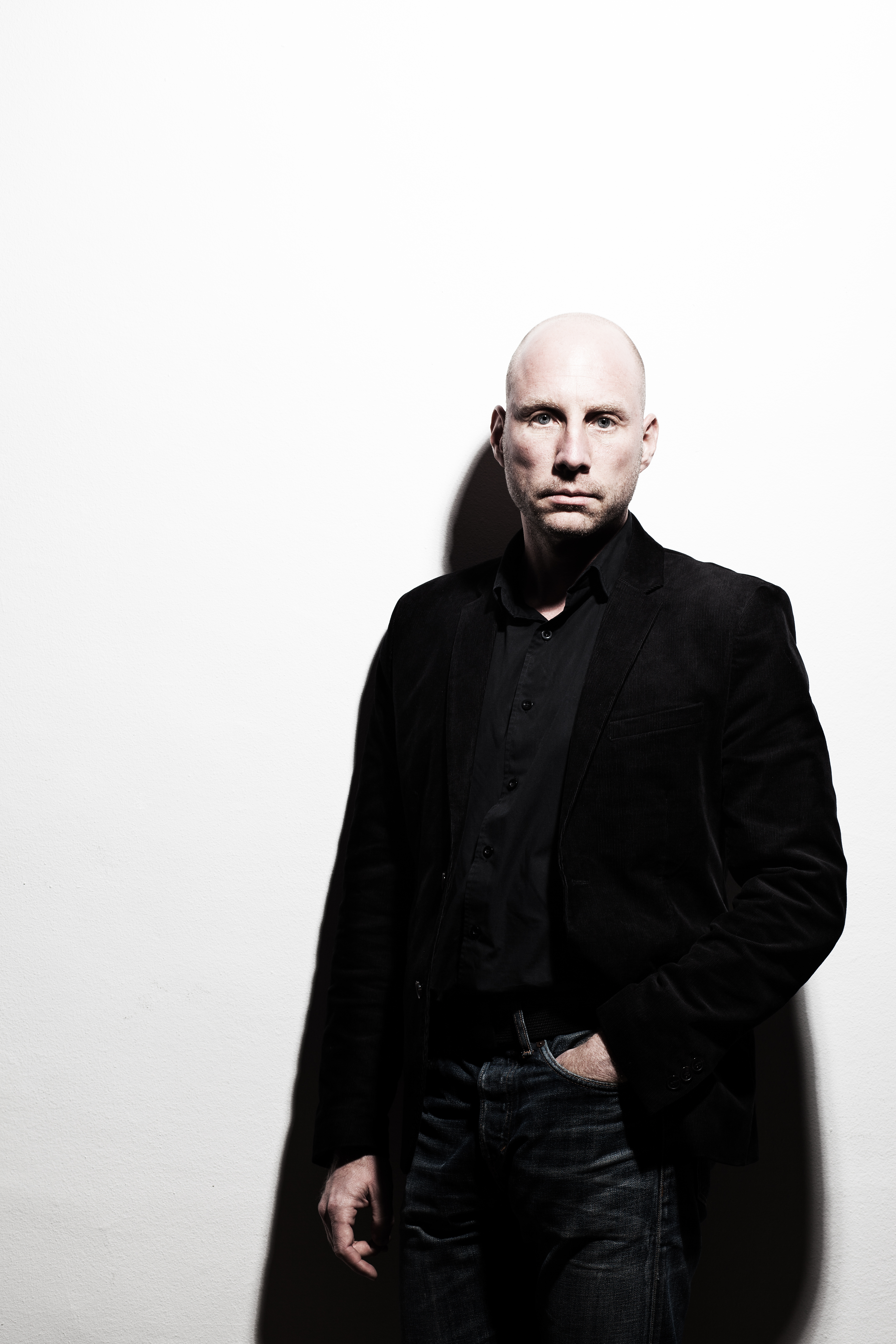 Author Sven-André Dreyer, Duesseldorf 2013